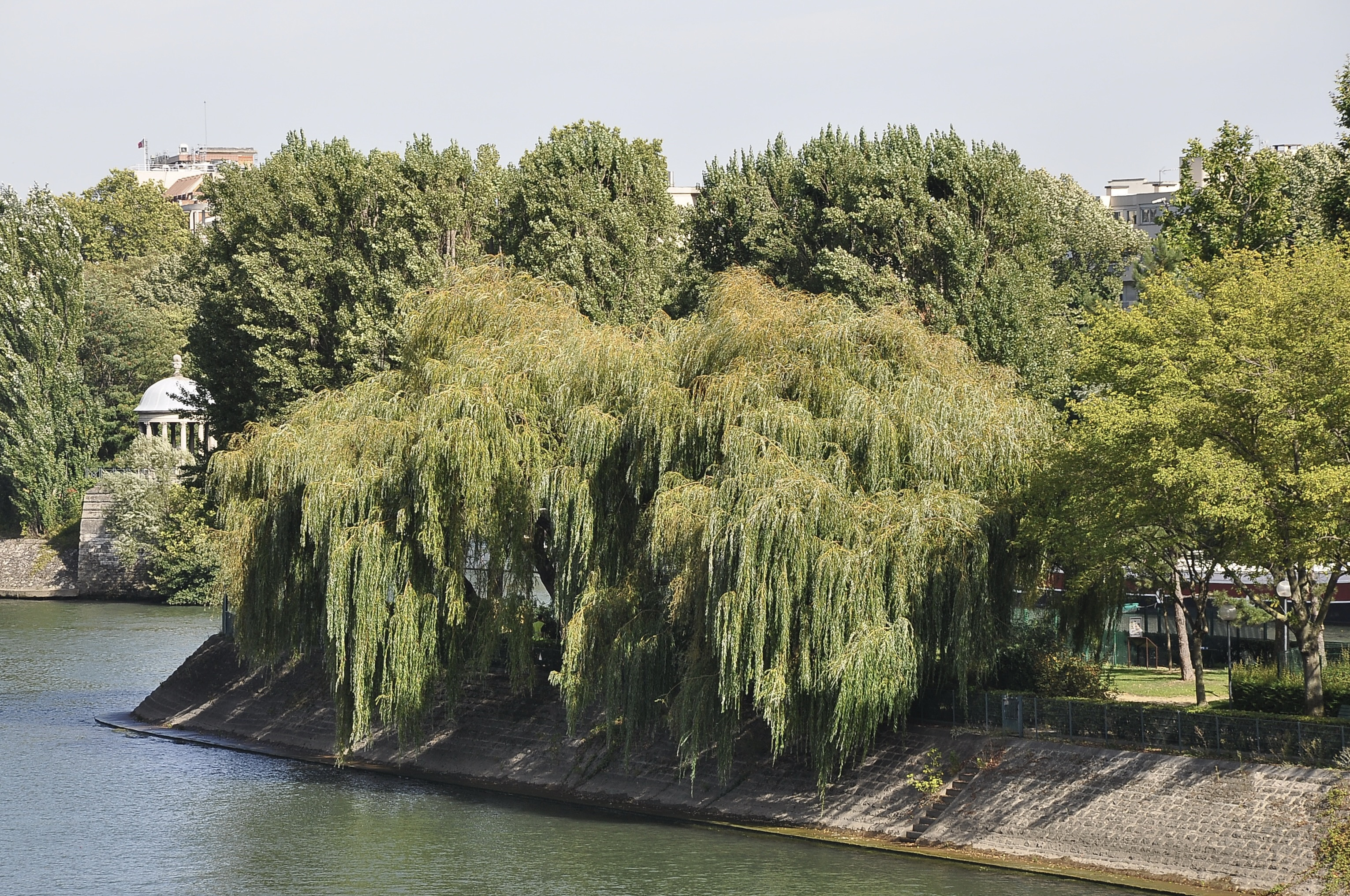 Northeast head of island Île de Puteaux from the Pont de Neuilly bridge in Hauts-de-Seine department of France.